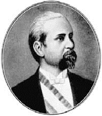 Juan Gualberto González, President of Paraguay in 1890 to 1894.